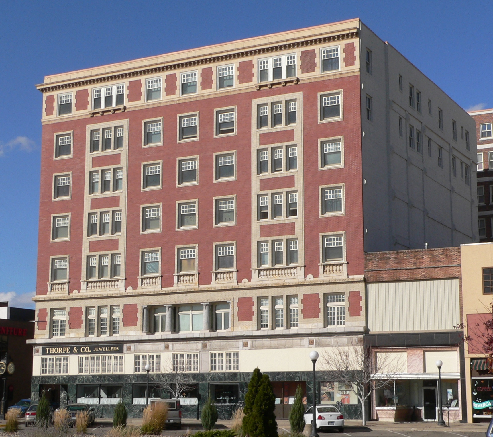 Martin Hotel, located at northeast corner of 4th and Pierce in Sioux City, Nebraska; seen from the southeast.